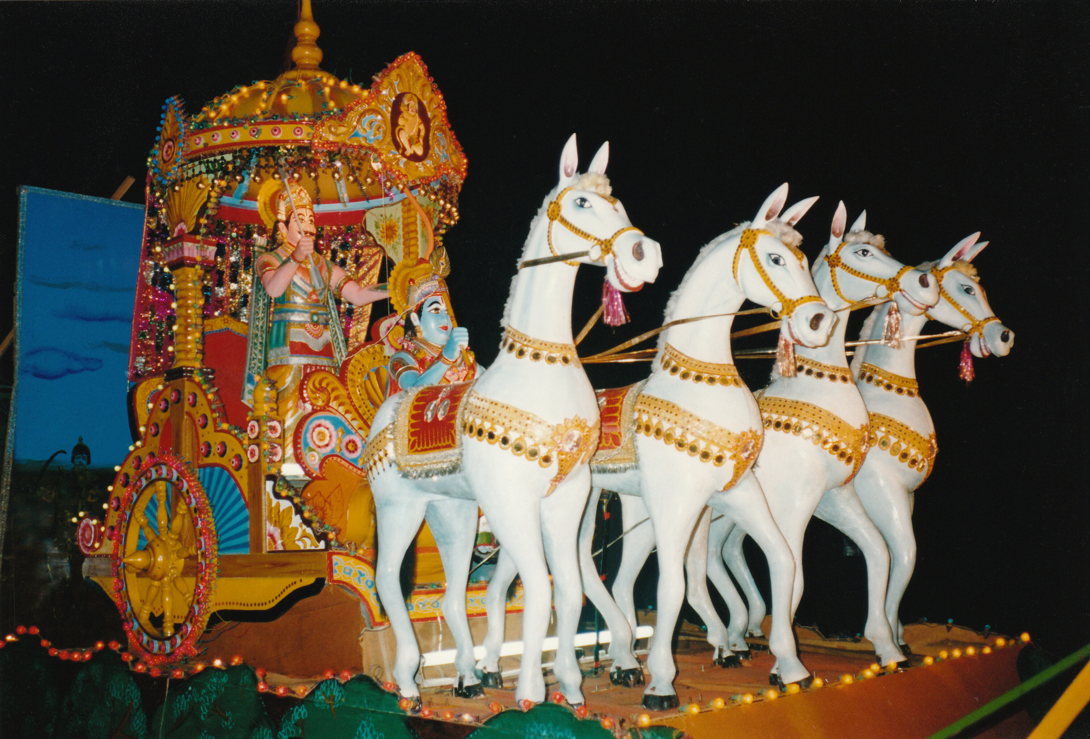 Procession of gods in a festival in Varkala (Kerala). In the carriage are Arjuna and his coachman the god Krishna, who reveals the teachings of the Bhagavadgita to him